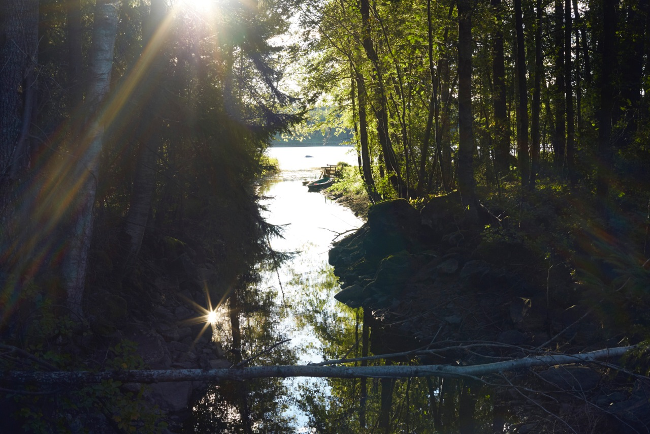 Streams in Sweden